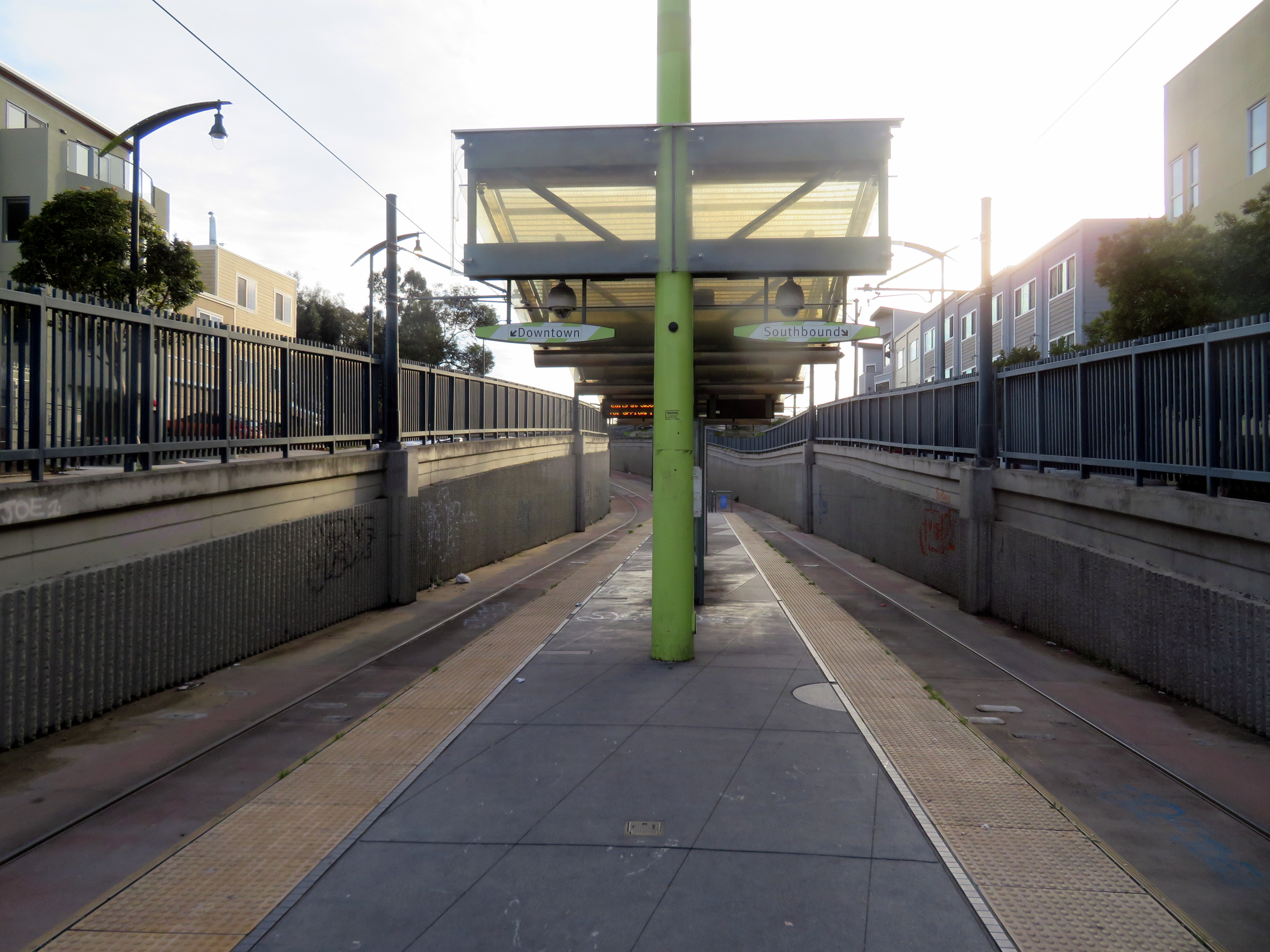 Le Conte station in January 2020